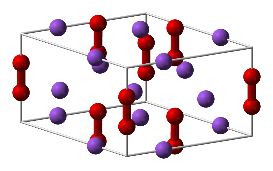 Ball-and-stick model of the unit cell of sodium peroxide, Na2O2